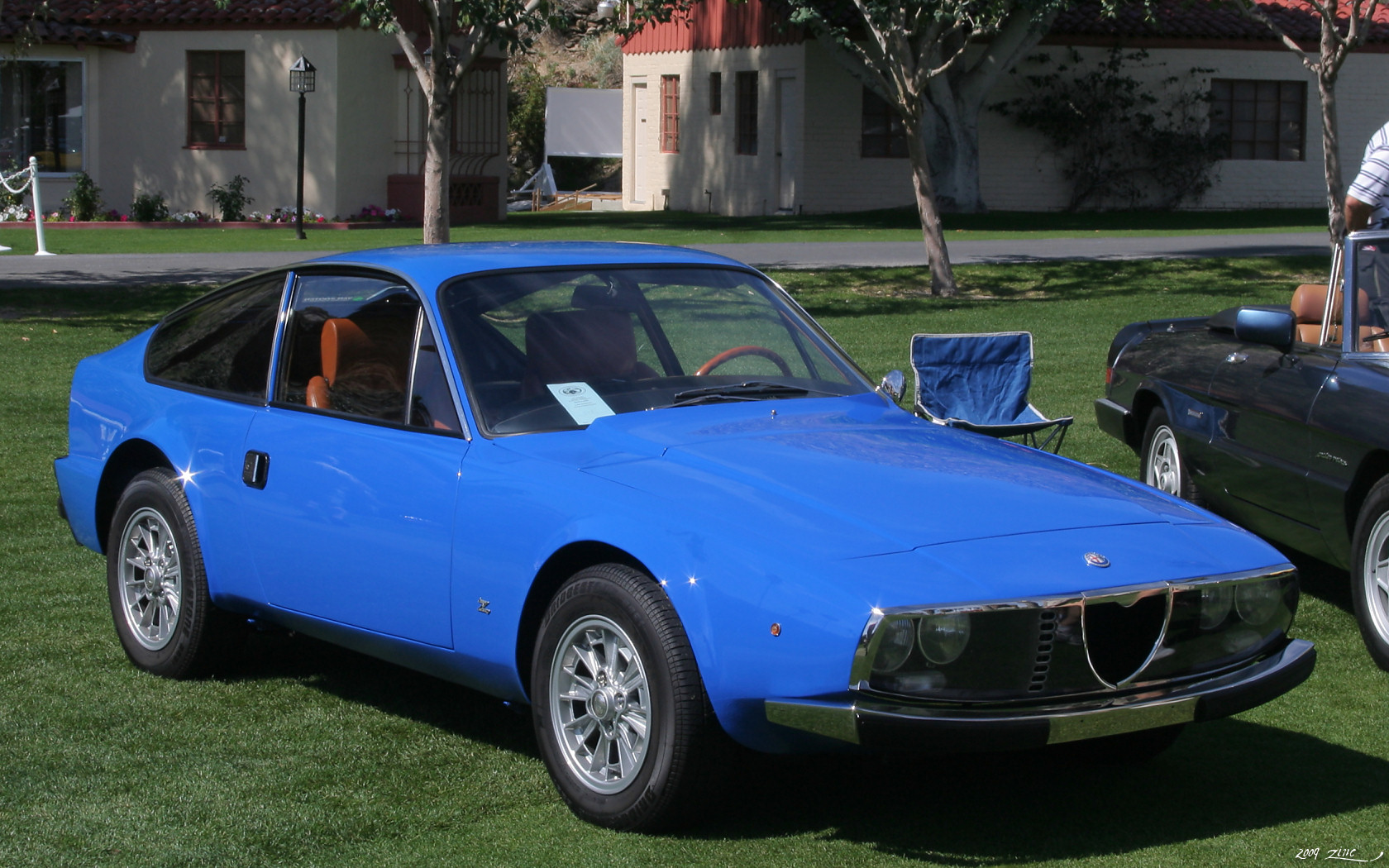 Palm Springs Desert Classic Concours d'Elegance, March 01, 2009